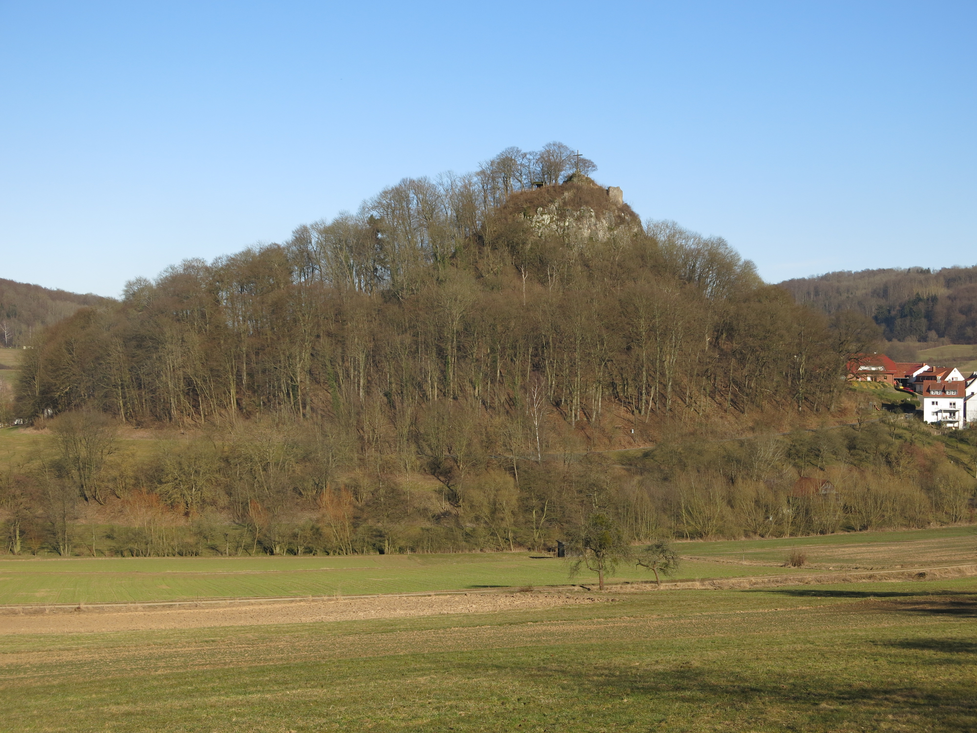 Location of the castle ruin Haselstein in the Rhön Mountains in Hesse, seen from southwest